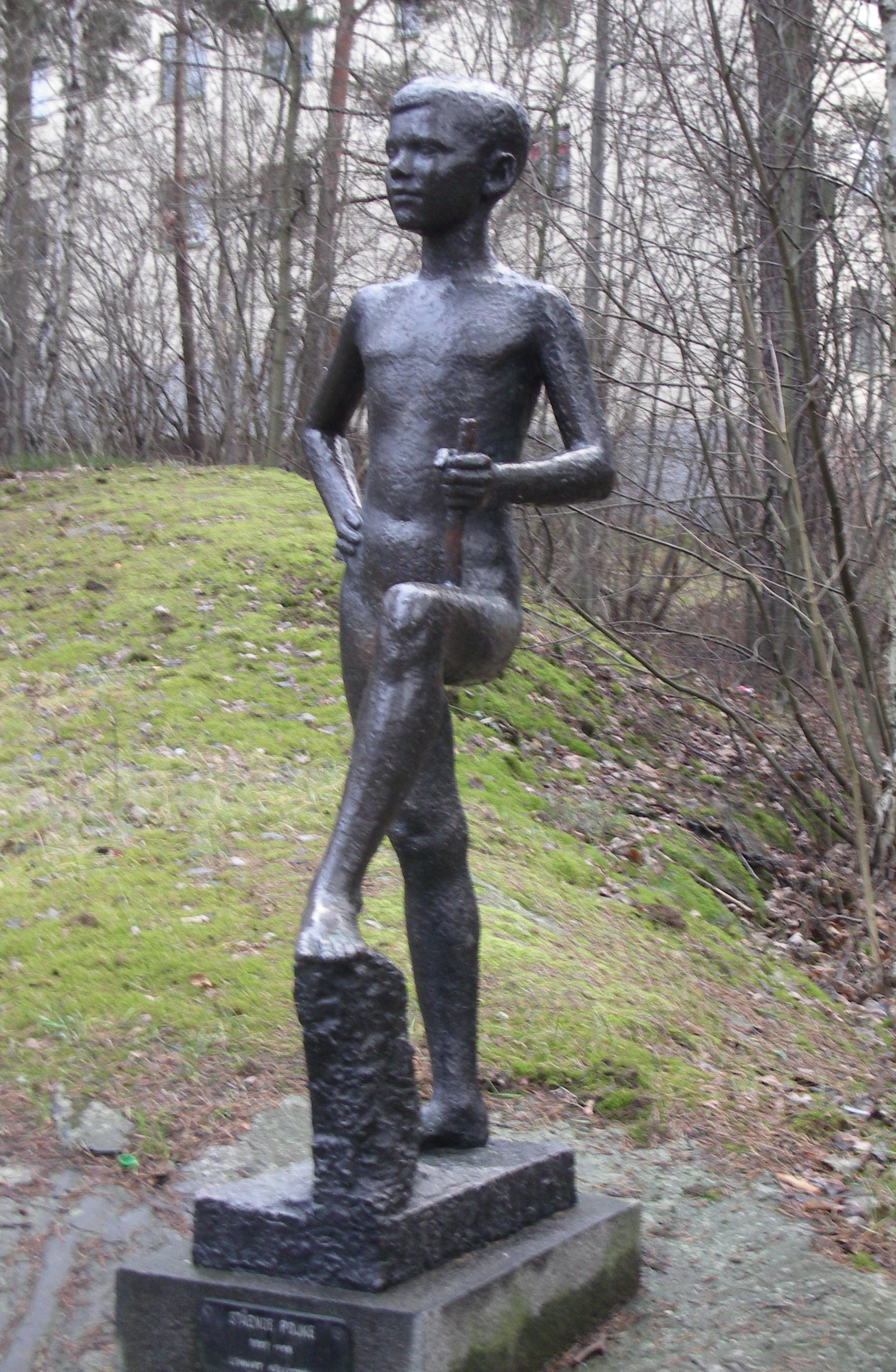 Lennart Källström´s Boy standing (Stående pojke), bronze, 1944, Västertorp, Sweden